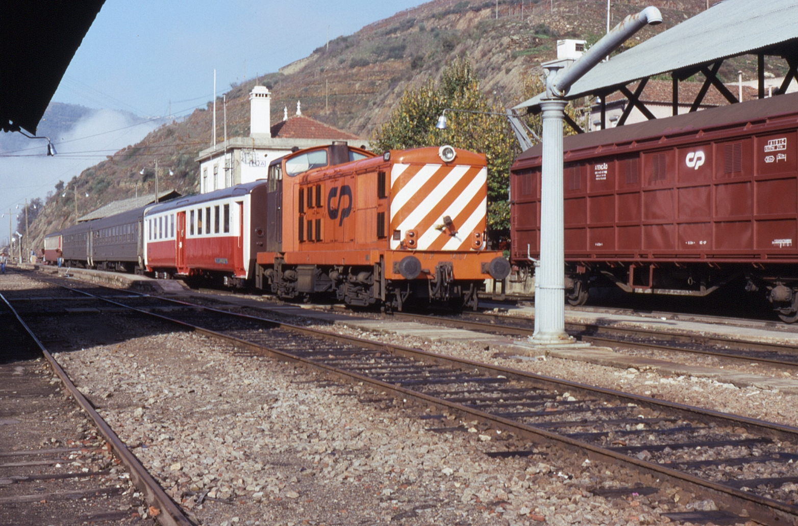 Seen at Tua on the Douro Valley Line on 9 November 1993, 1407 heading train IR681, 07:48 from Porto São Bento.